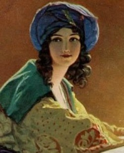 Painting of Damaris Cudworth